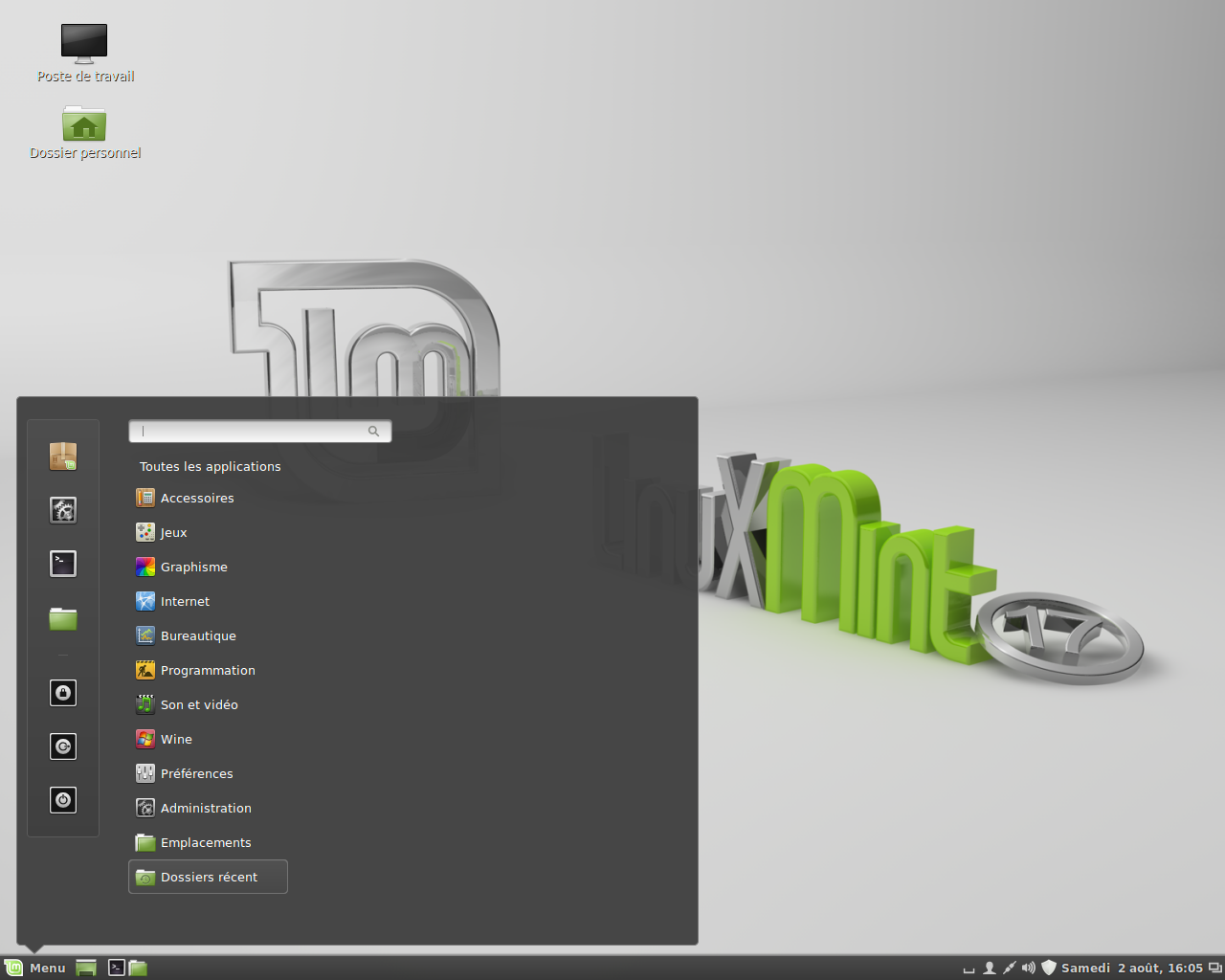 Screenshot of Linux Mint 17 Qiana - Cinnamon Edition. (French version)